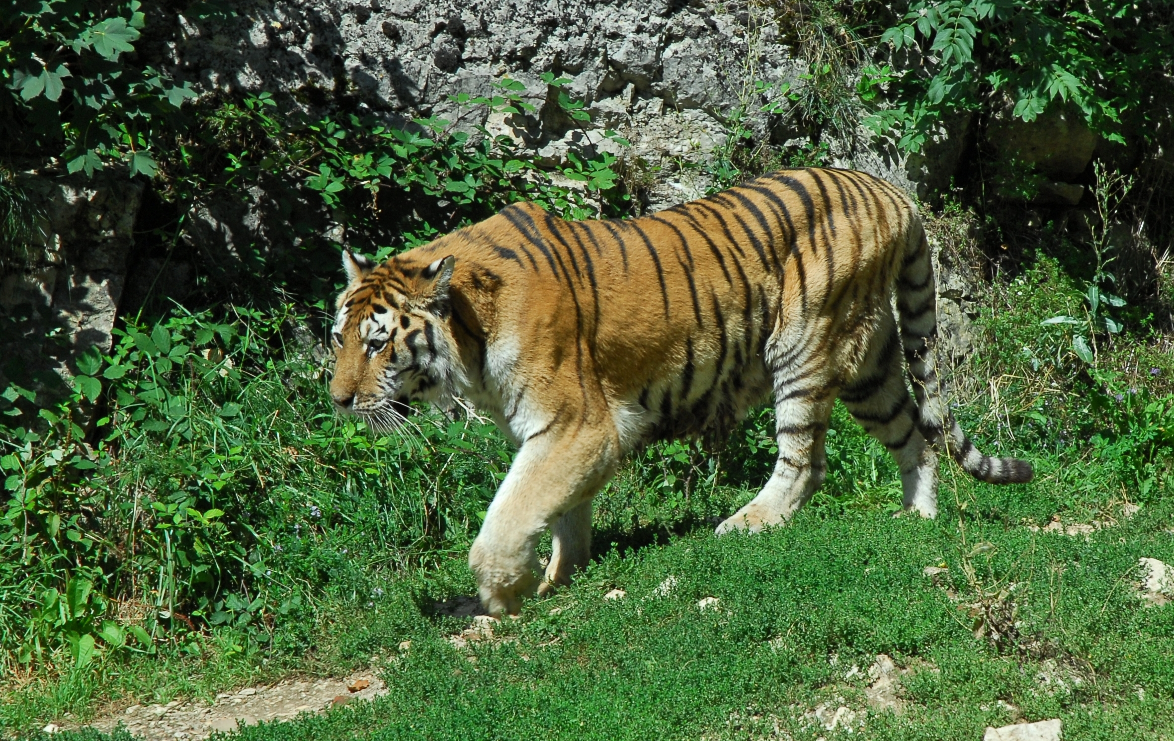 A Siberian tiger (Panthera tigris altaica) in the zoological garden of the citadel of Besançon.